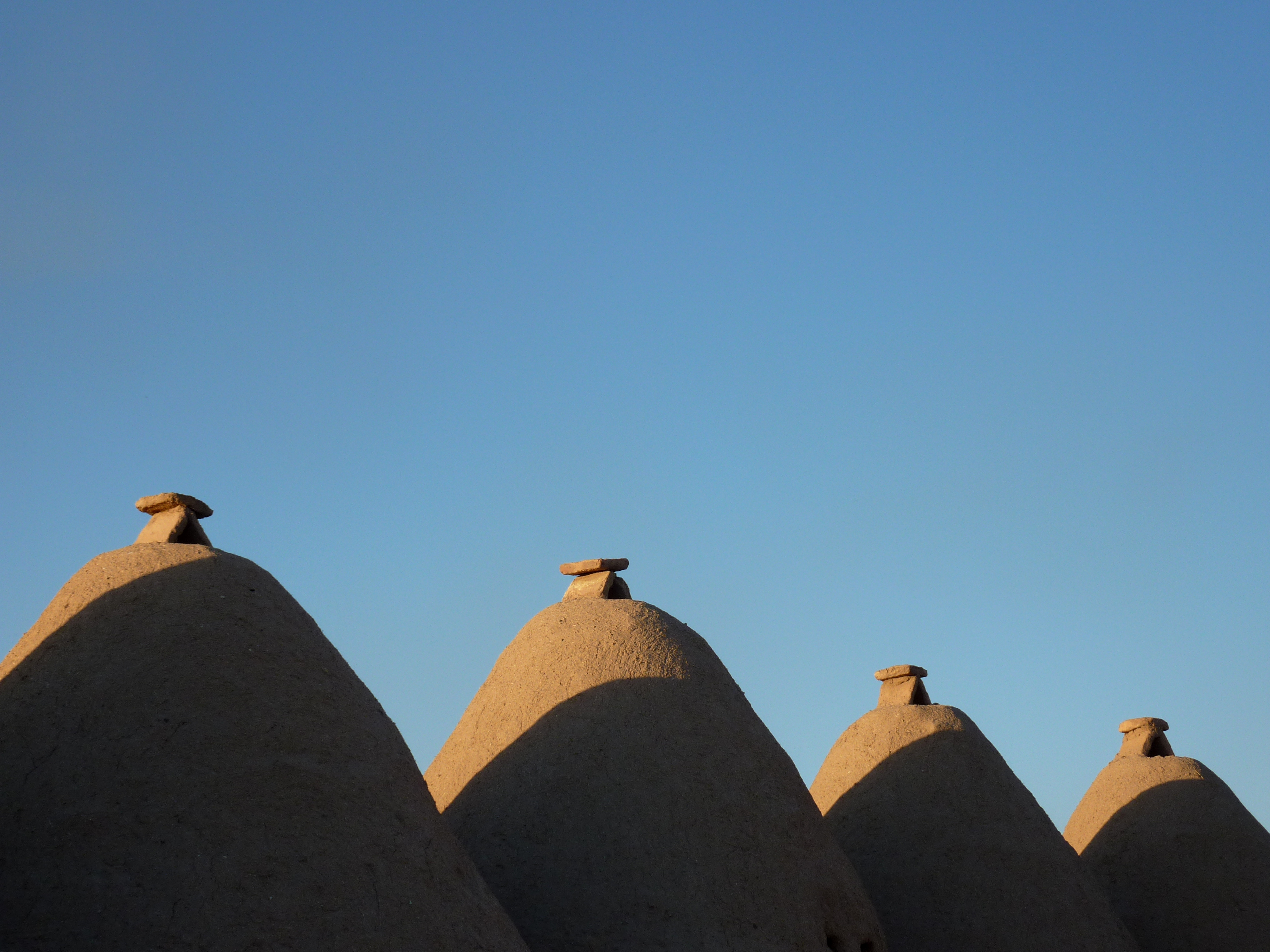 Harran beehive houses